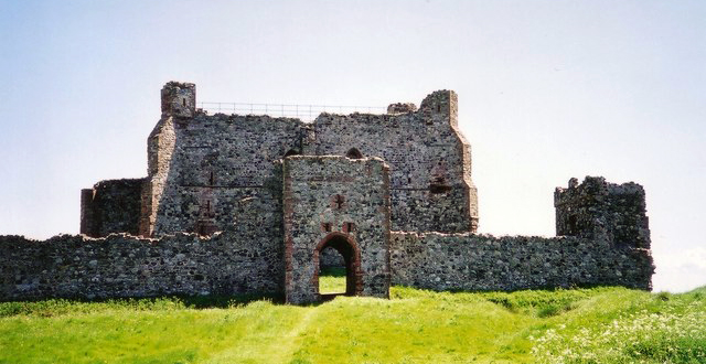 Piel Castle - gatehouse and keep